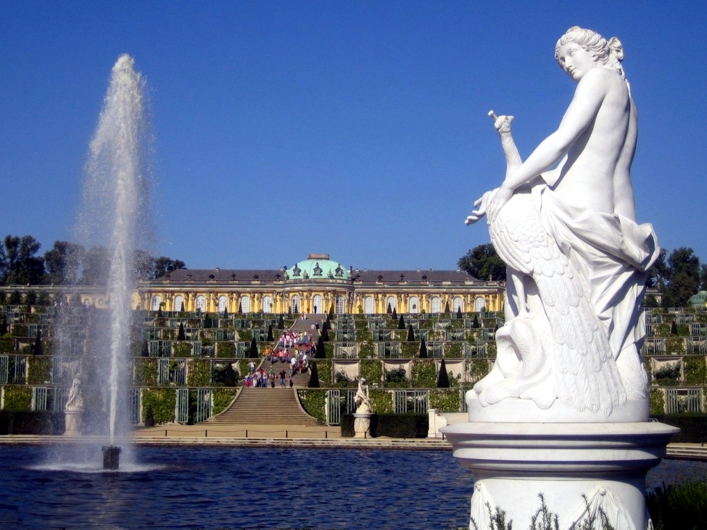 Palace of Sanssouci with sculpture and fountain in the foreground.